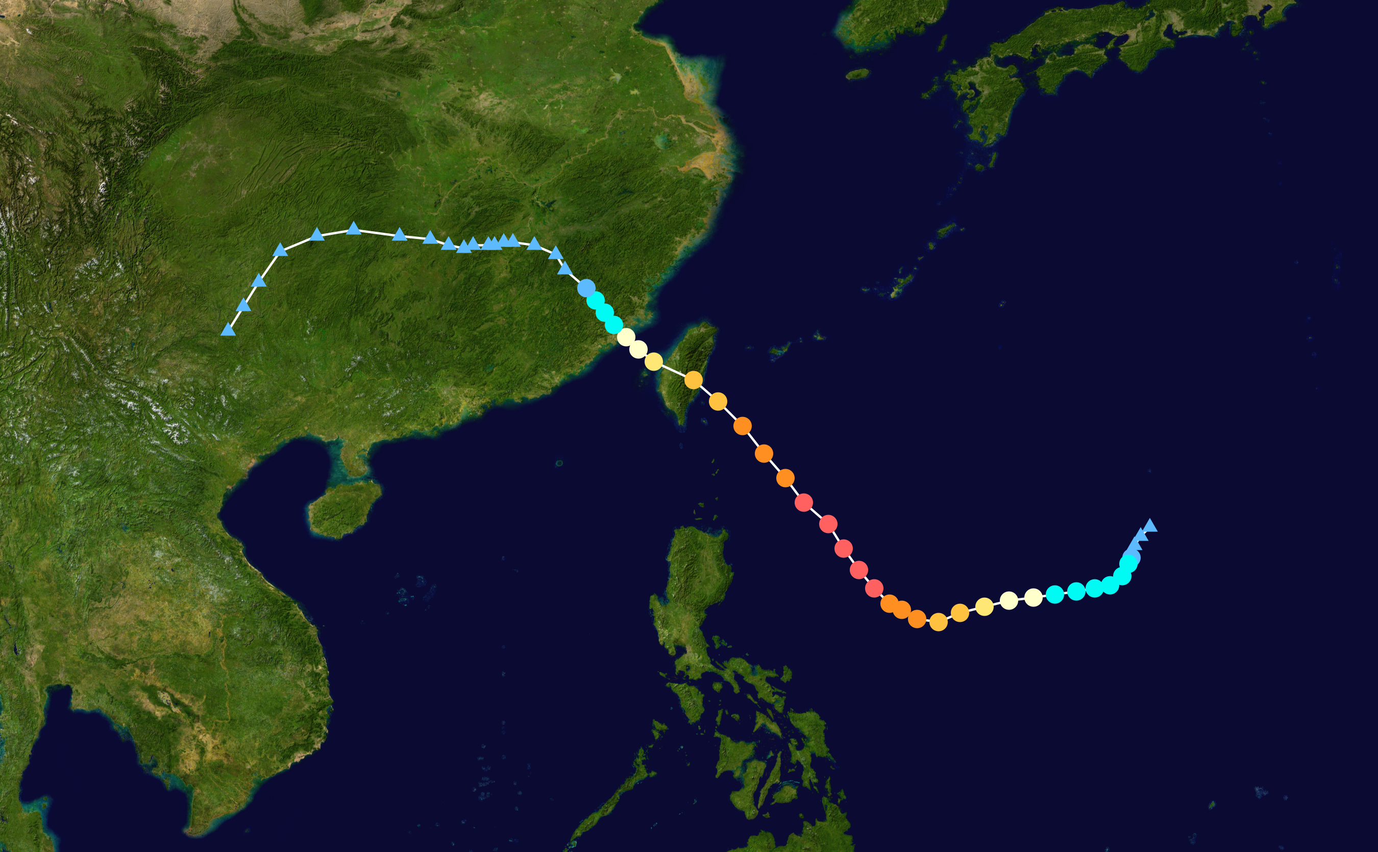 Track map of Typhoon Sepat of the 2007 Pacific typhoon season. The points show the location of the storm at 6-hour intervals. The colour represents the storm's maximum sustained wind speeds as classified in the Saffir–Simpson scale (see below), and the shape of the data points represent the nature of the storm, according to the legend below. Saffir–Simpson scale Tropical depression≤38 mph≤62 km/h Category 3111–129 mph178–208 km/h Tropical storm39–73 mph63–118 km/h Category 4130–156 mph209–251 km/h Category 174–95 mph119–153 km/h Category 5≥157 mph≥252 km/h Category 296–110 mph154–177 km/h Unknown Storm type Tropical cyclone Subtropical cyclone Extratropical cyclone / Remnant low / Tropical disturbance / Monsoon depression